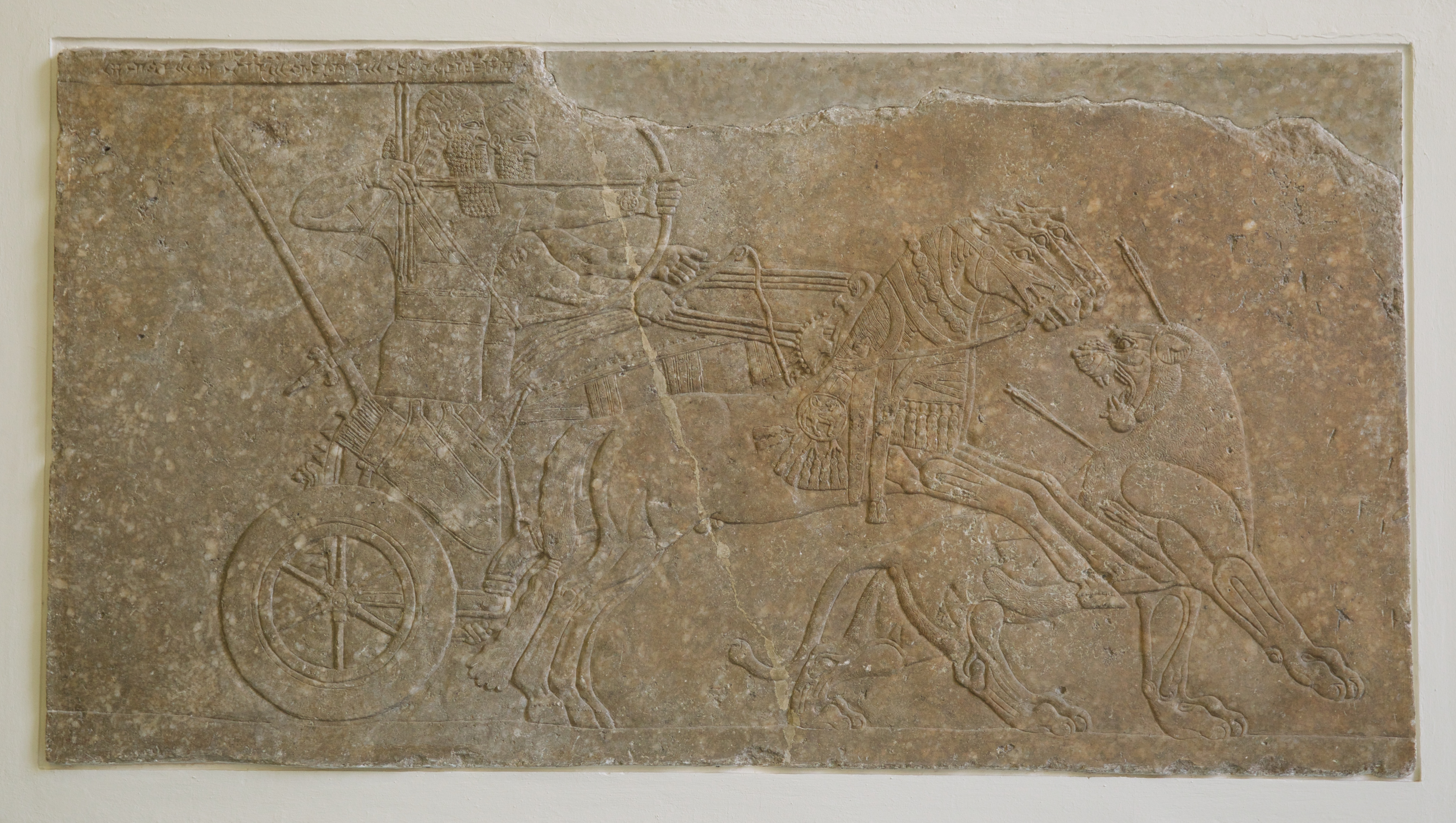 Assyrian Lion Hunt Relief showing Ashurnasirpal II, Pergamon Museum, Berlin 2014